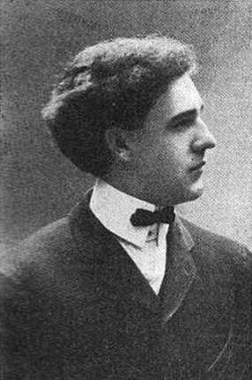 American vioininst and teacher Guy Gregory Callow (1877-1948)